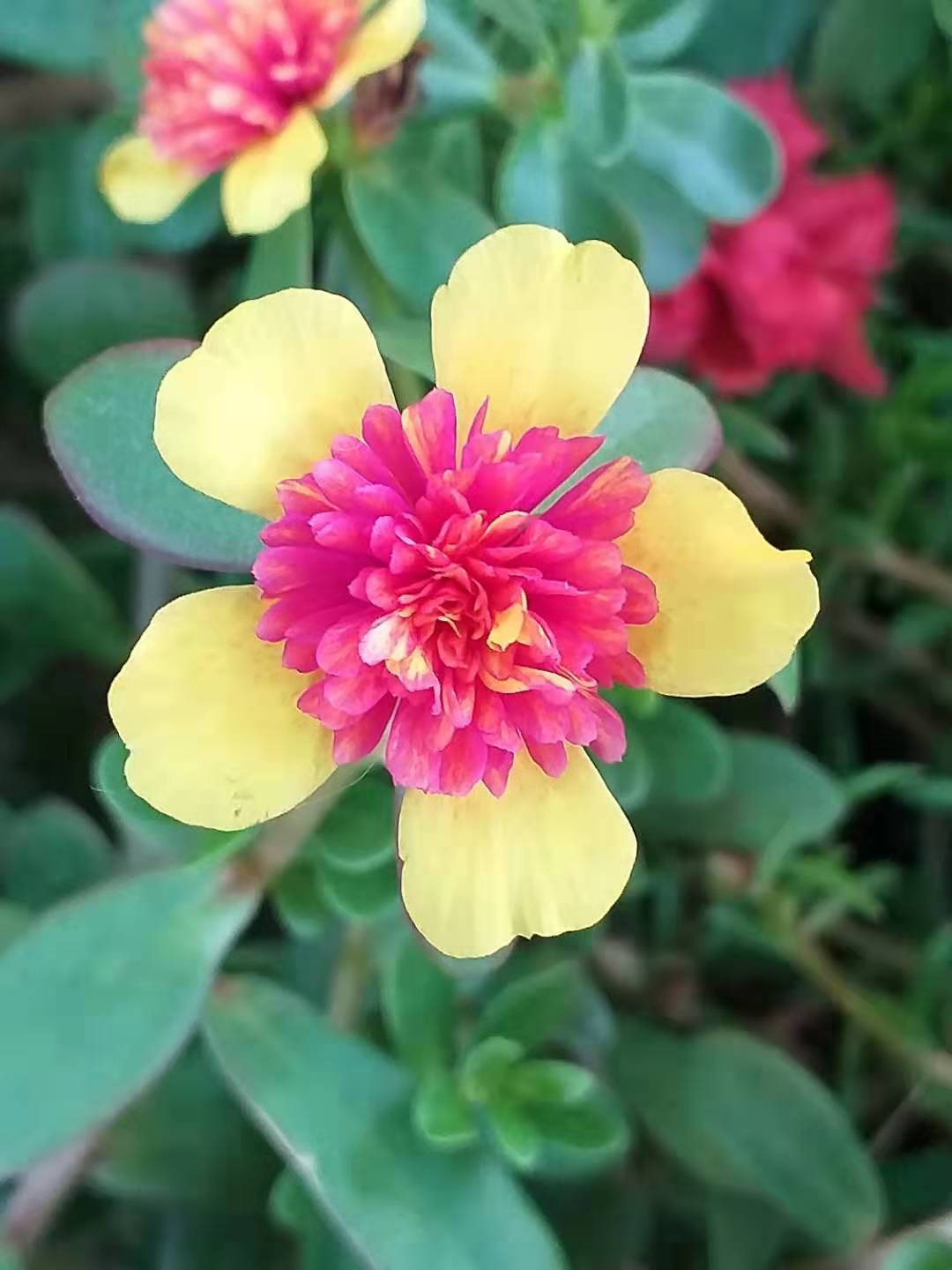 Cultivar with double flowers. Taichung, Taiwan.